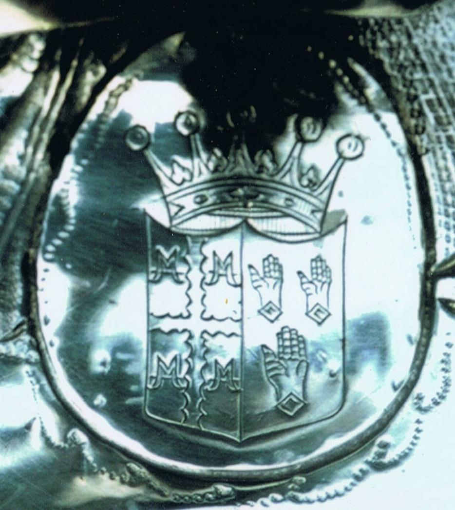 escrutcheon showing Bourchier impalling Fane. Scan (Oct. 2007) of photo (R. de Salis, March 2006).Rodolph 18:17, 19 October 2007 (UTC) Bourchier arms (for Baron Bourchier, summoned to parliament 1342): Argent a cross engr. gules between four water bougets sable.Rodolph 15:44, 6 November 2007 (UTC)